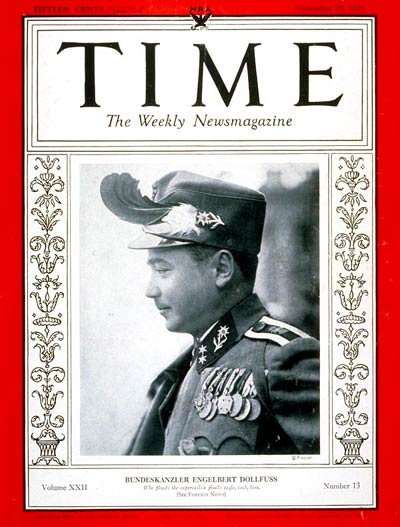 Austrian politician and PM Engelbert Dollfuss.